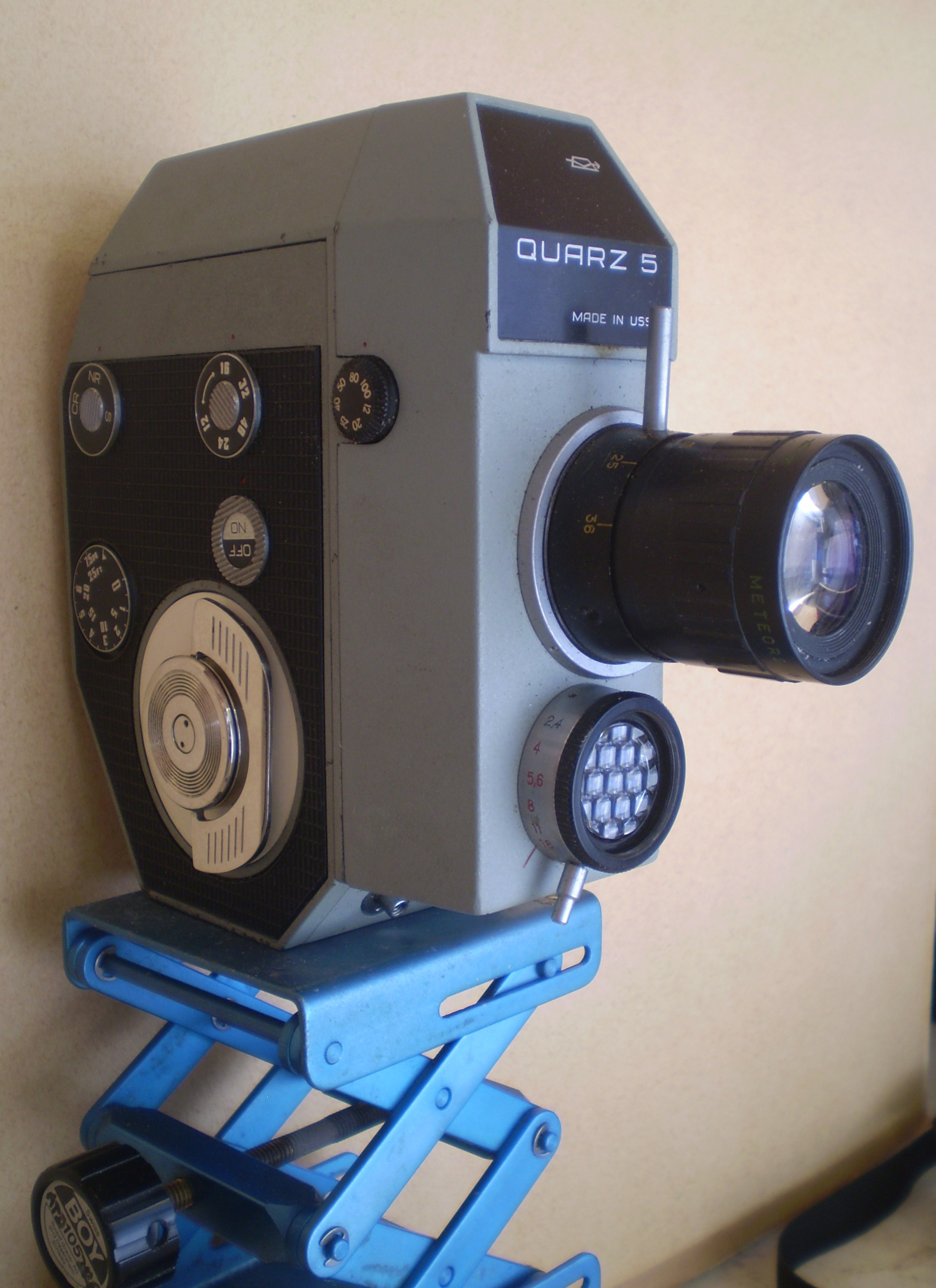 Quarz-5 camera (right side)